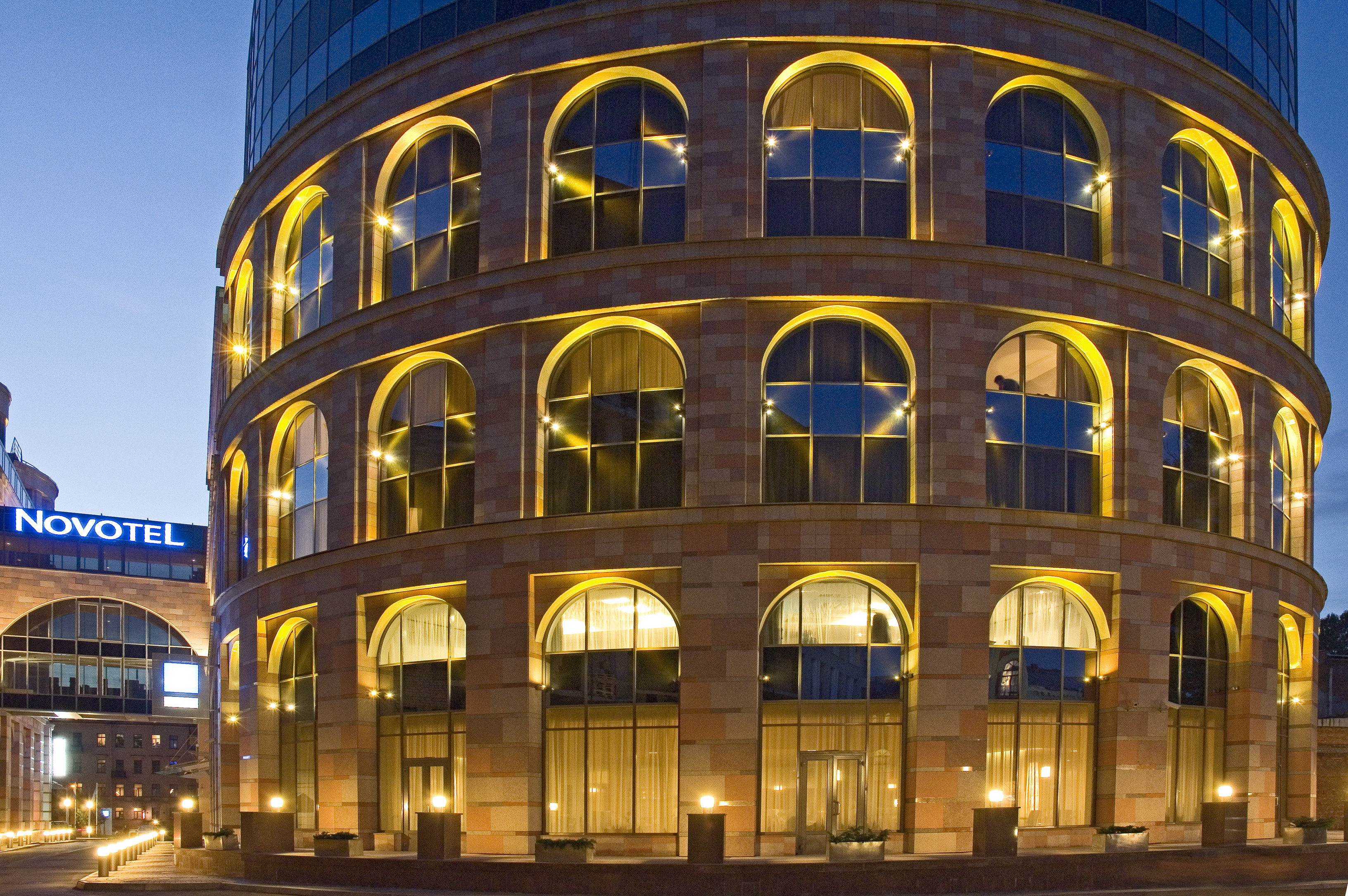 One of the towers of the hotel looks like Coliseum.